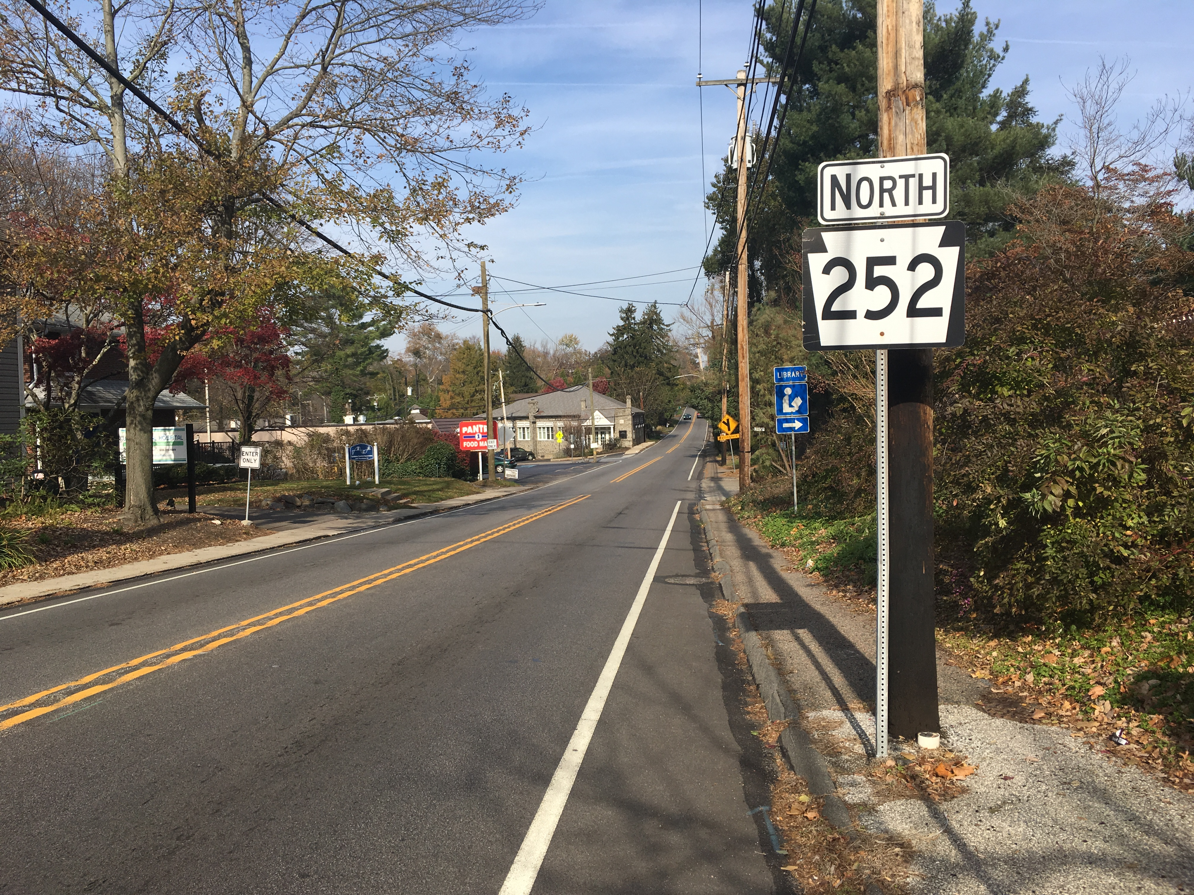 Northbound Pennsylvania Route 252 (Providence Road) past the intersection with Possum Hollow Road in Wallingford, Pennsylvania